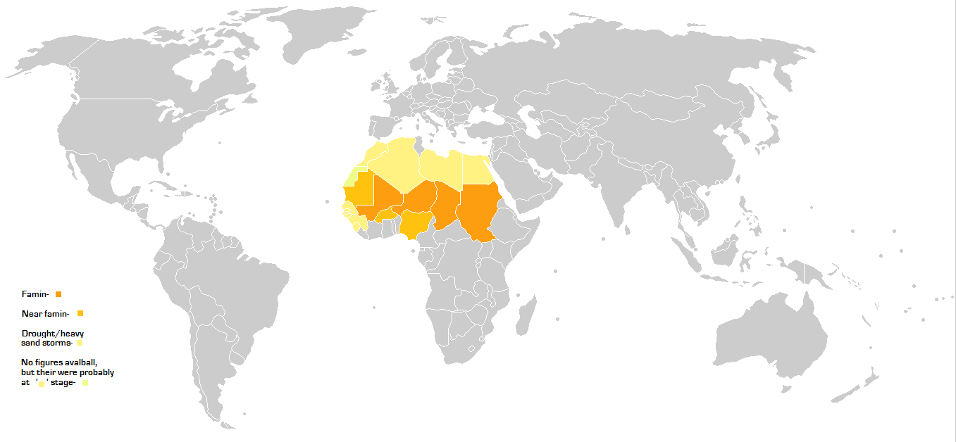 Map showing the nations hit by the 2010 Sahel African famine. See the map key for clour code detailes.